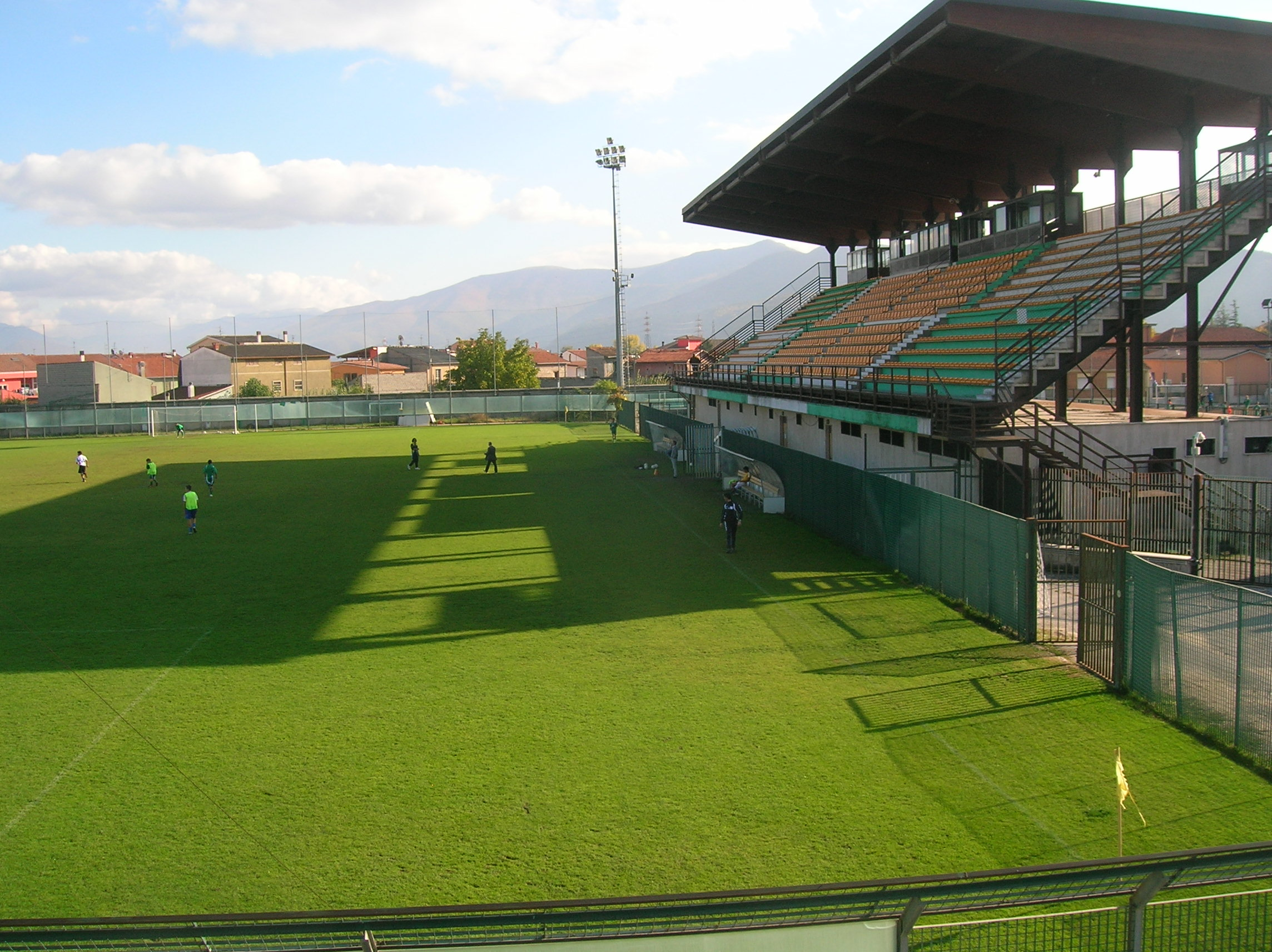 Stadium "Dei Marsi" in the city of Avezzano (Province of L'aquila, Abruzzo, Italy)